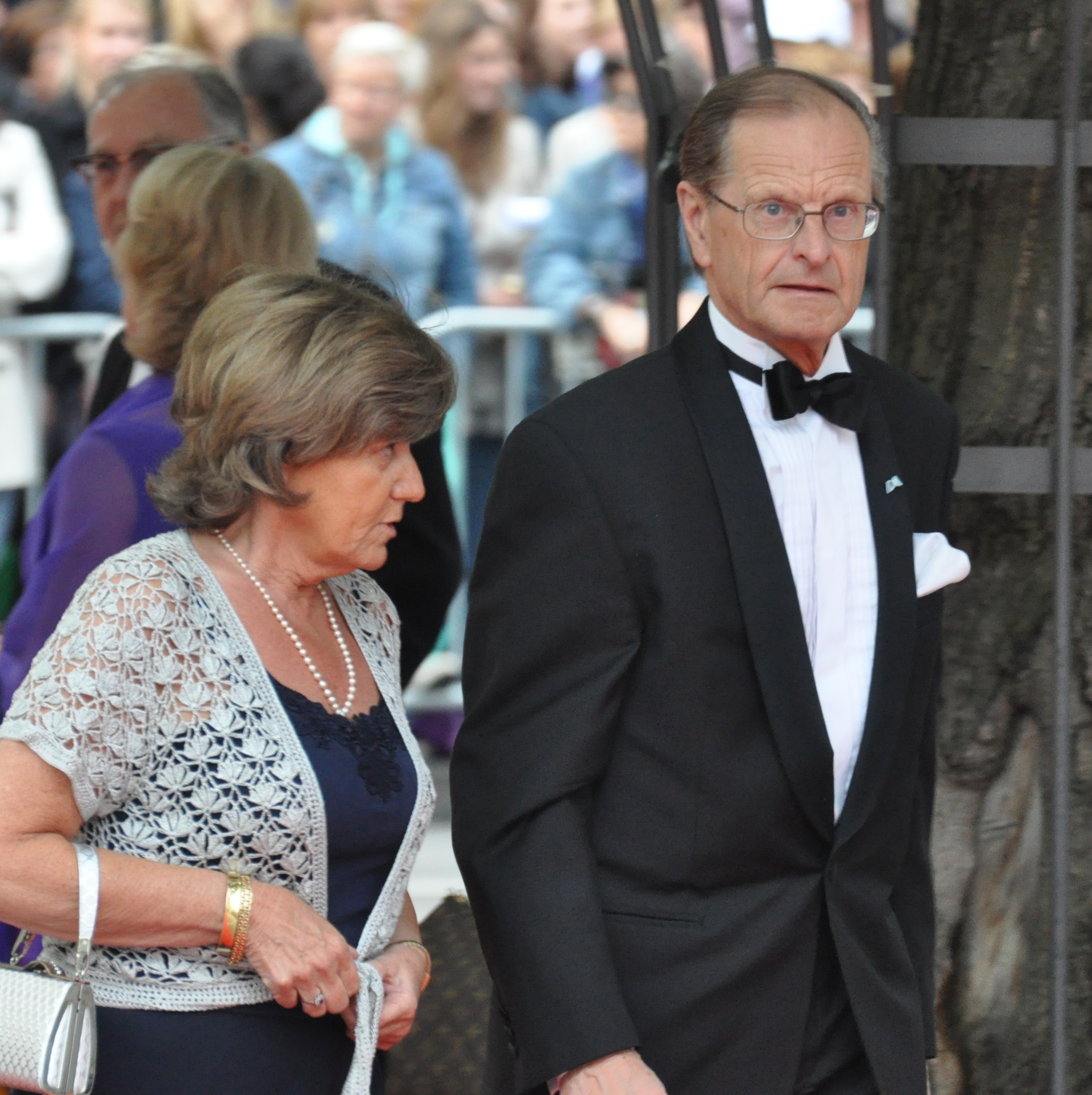 Wedding of Victoria, Crown Princess of Sweden, and Daniel Westling; Arrival of members for the Gouvernment and Swedish and foreign guests of hounour - here a.o. former Marshal of the Realm Ingemar Eliasson (right) - to the Riksdag's Gala Performance at Konserthuset